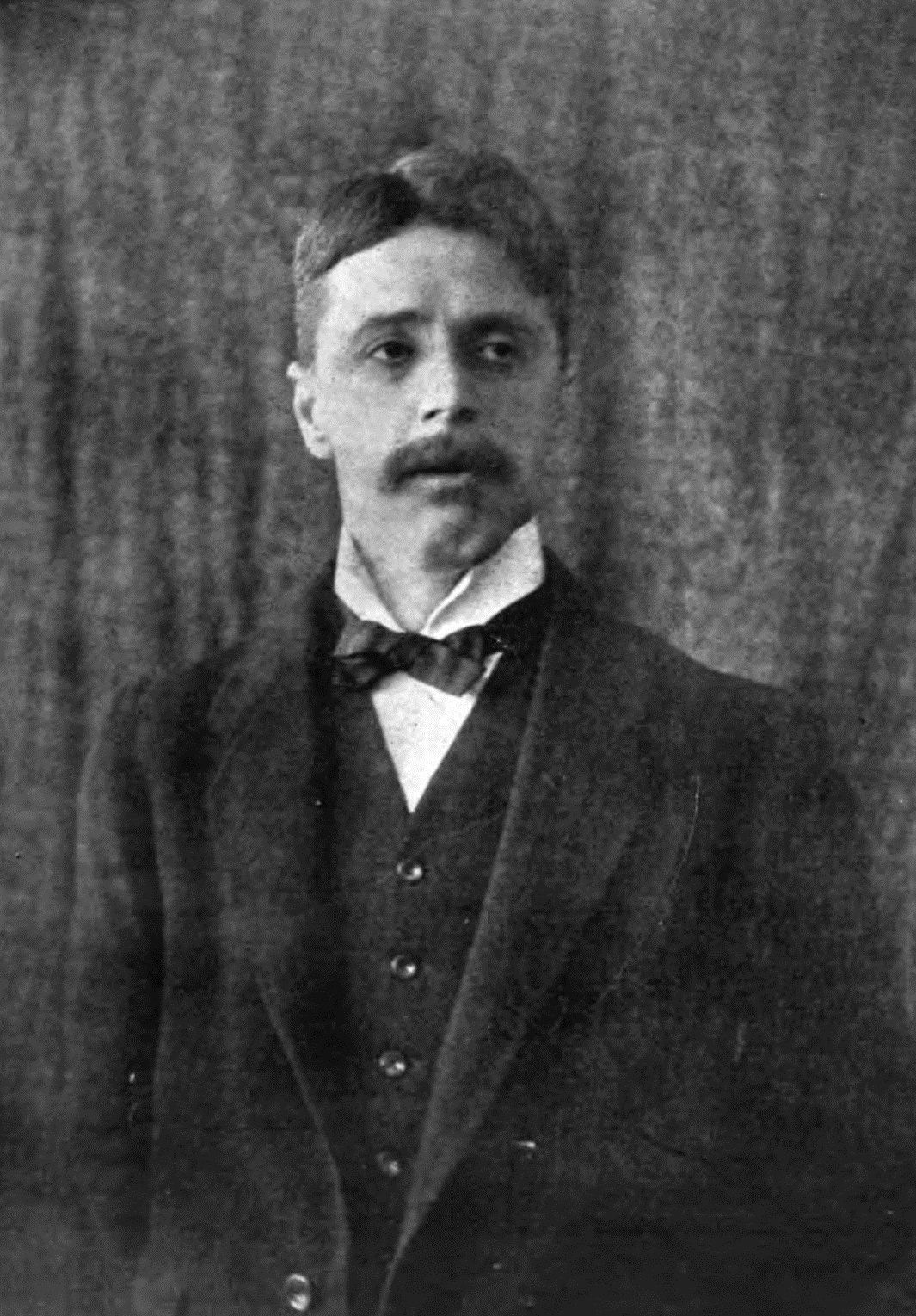 Arnold Bennett